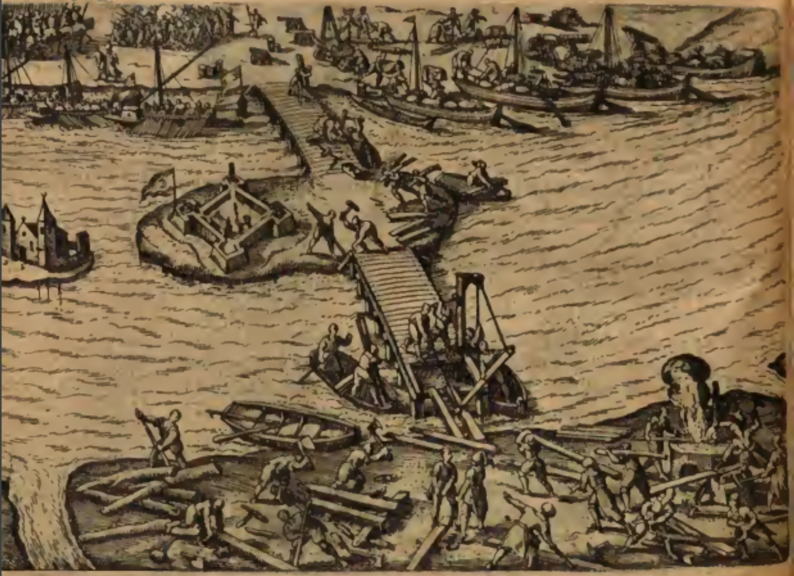 Construction of the bridge in Djurdju, 1595